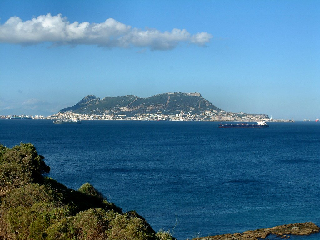 Author: Hans Lohninger Description: Gibraltar seen from Punta del Canero Source URL